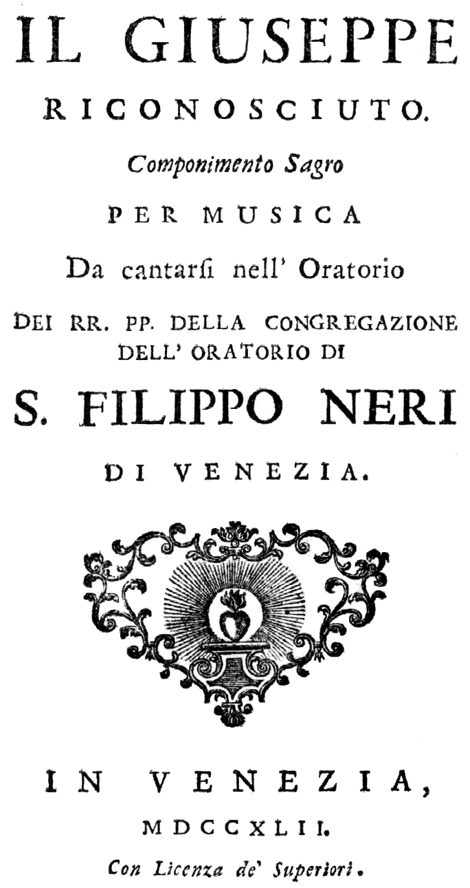 Paolo Scalabrini - Il Giuseppe riconosciuto - titlepage of the libretto - Venice 1742